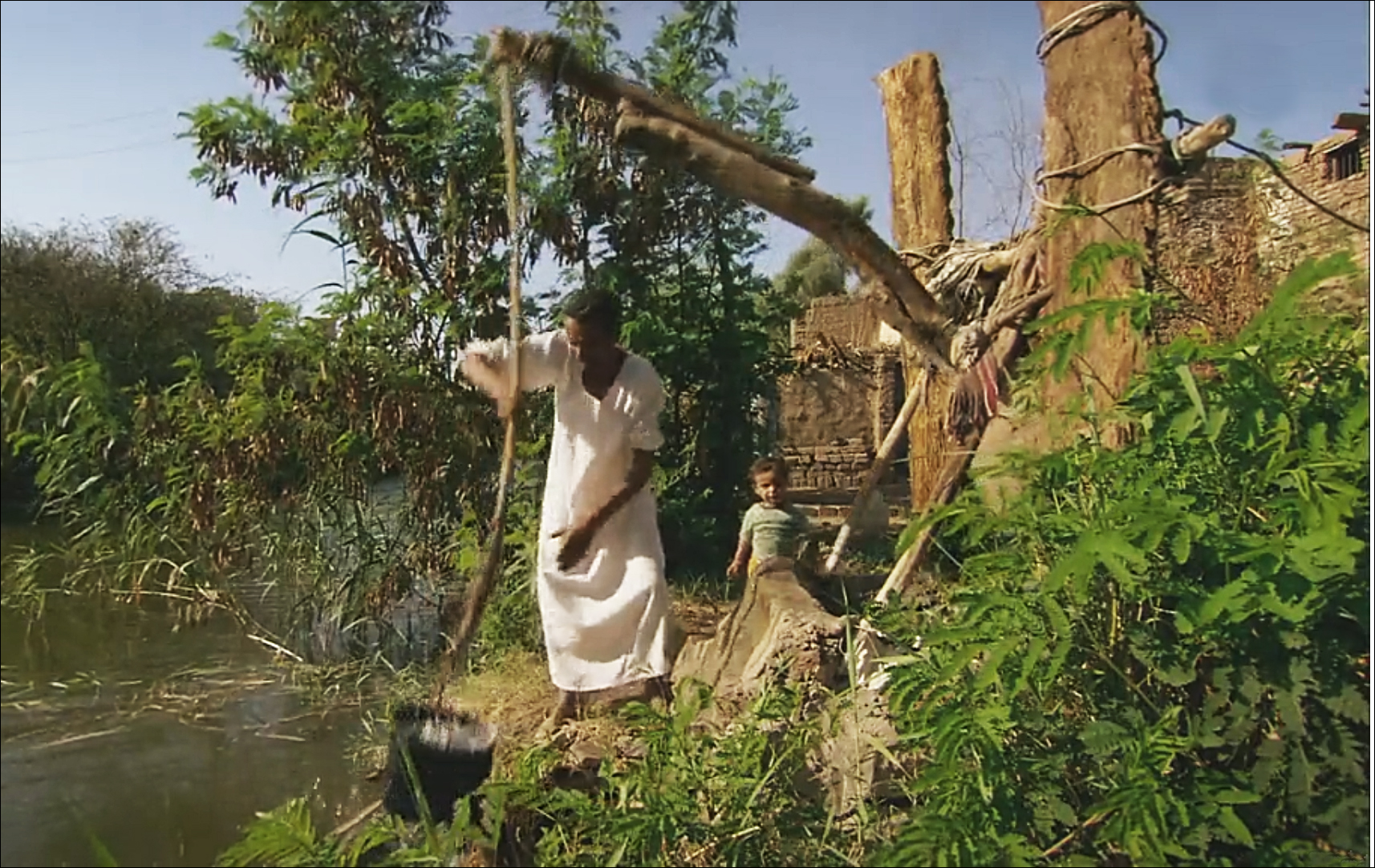 Family Chadouf in Upper Egypt.